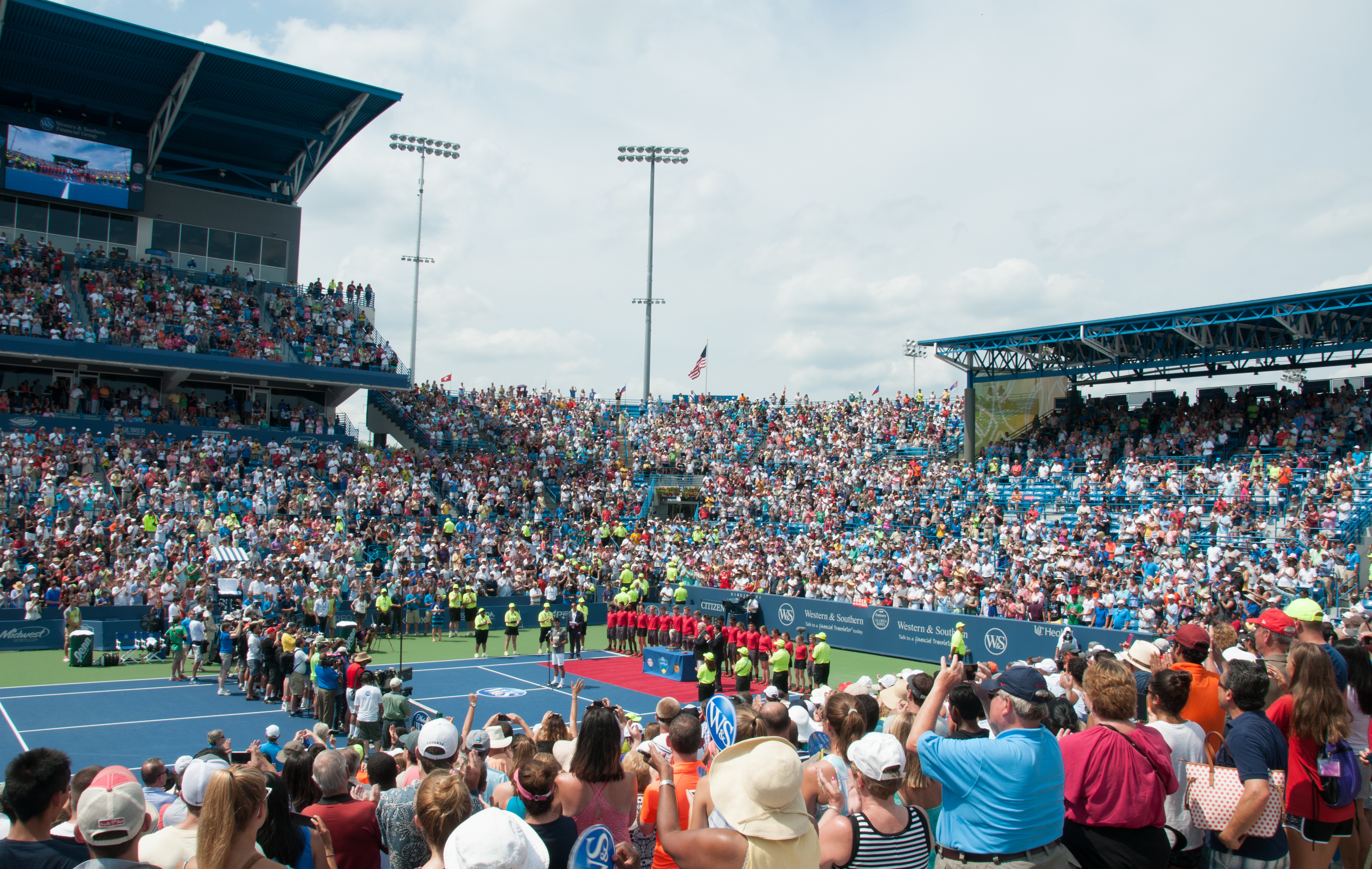 Cincinnati-Tennis-2015-ATP-WTA-134